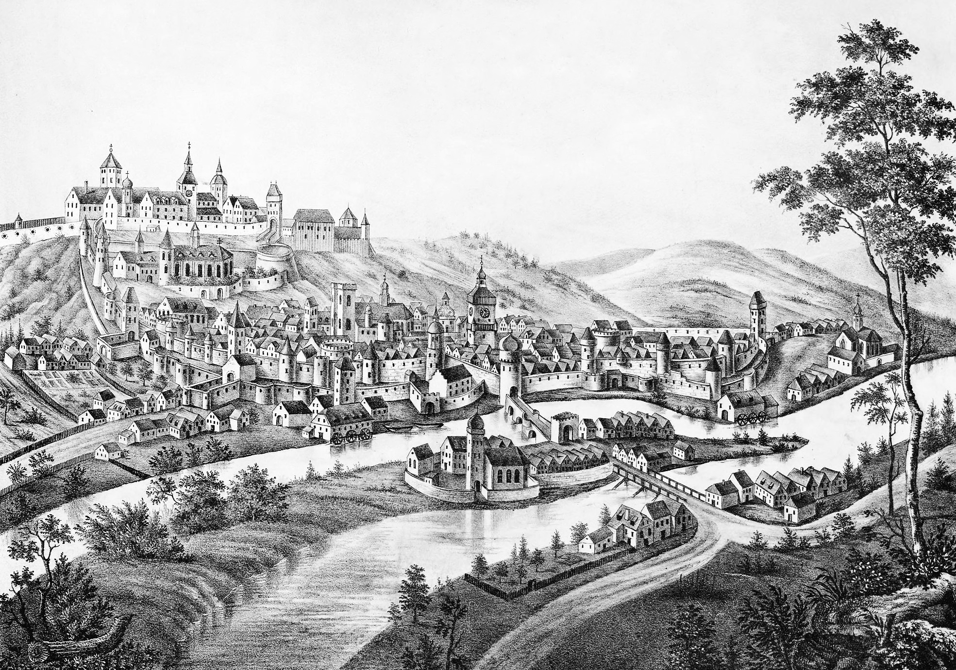 Kłodzko in 1650